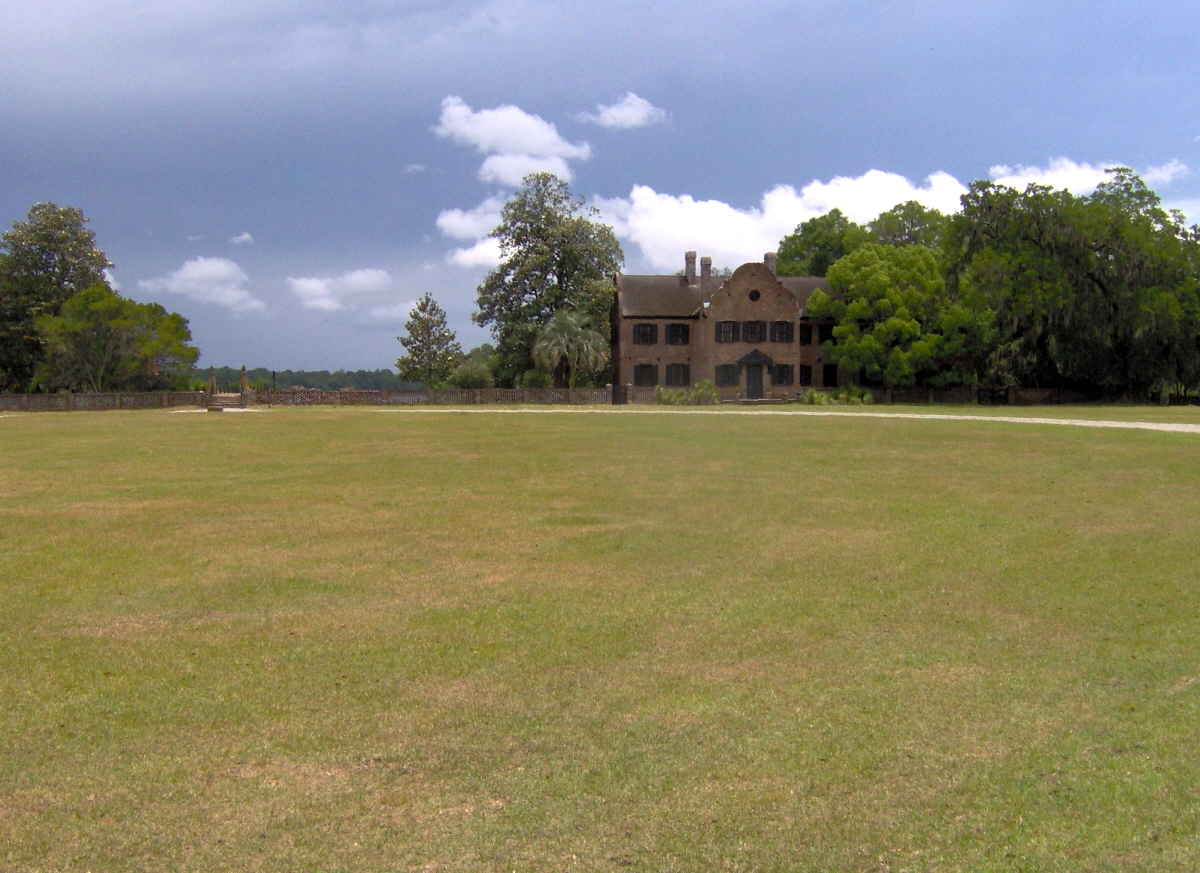 View of the house at Middleton Place, near Charleston, South Carolina, USA. Now the plantation's house museum, this structure was originally the south wing, but became the main residence after the original main house was destroyed. The low wall left of the house indicates where the original main house once stood. The clouds are part of the outer bands of Subtropical Storm Andrea.